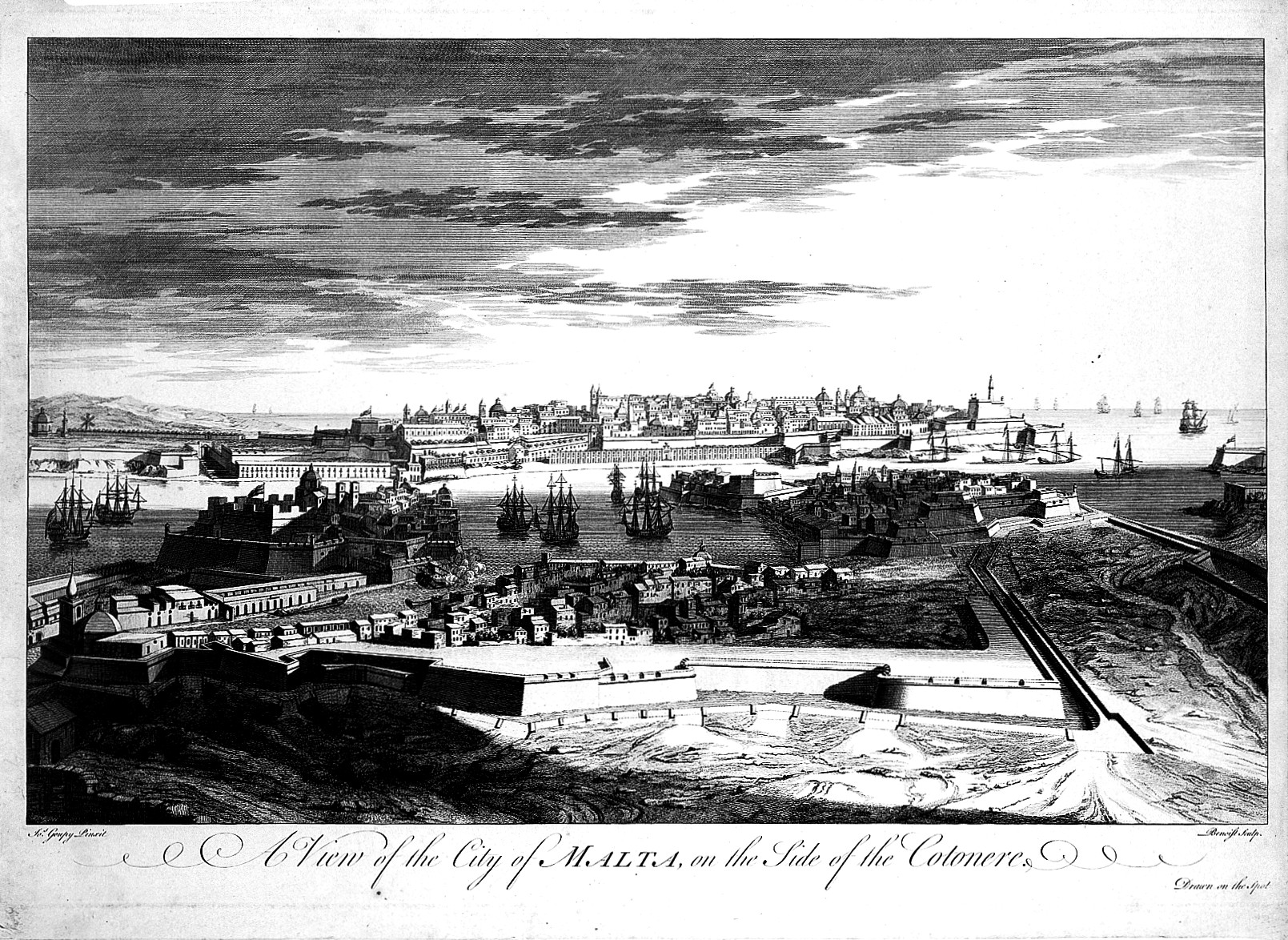 Malta: view from the Cotonera fortifications. Etching by M-A. Benoist, c. 1770, after J. Goupy, c. 1725. Iconographic Collections Keywords: Joseph Goupy; Joseph Goupy; M-A. Benoist